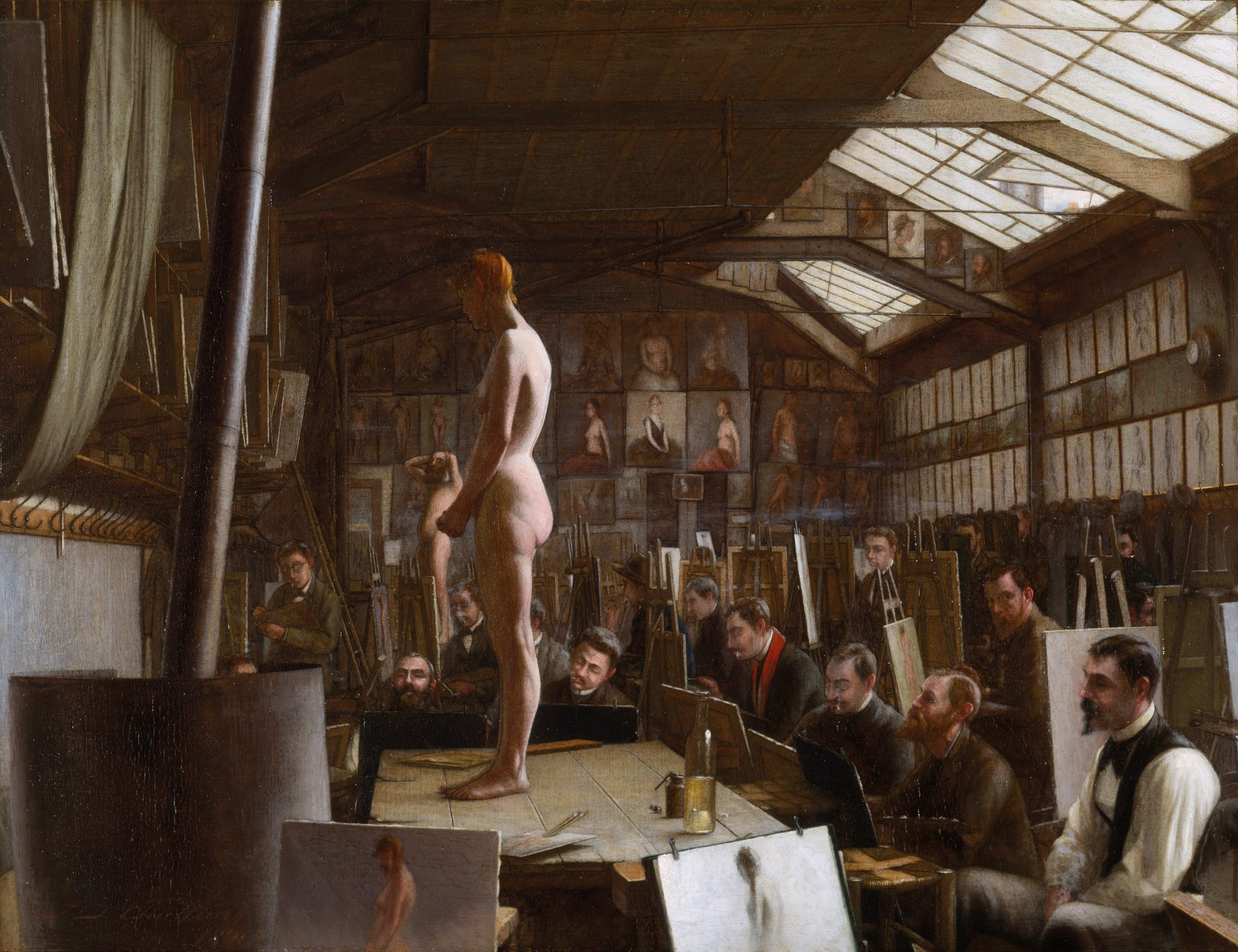 De Young Museum via Google Cultural Institute.